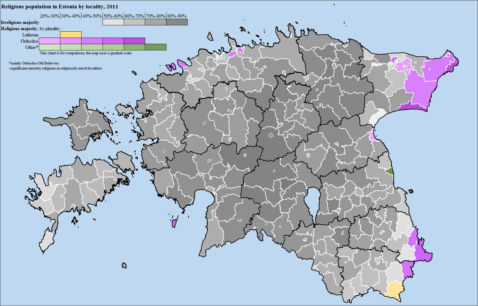 Map of religiosity and biggest religions in majority religious localities in Estonia.